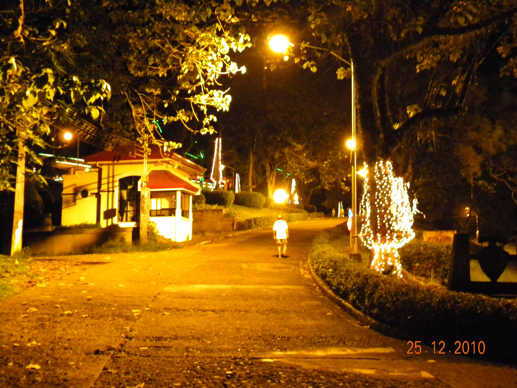 Provincial Capitol during Holiday Season